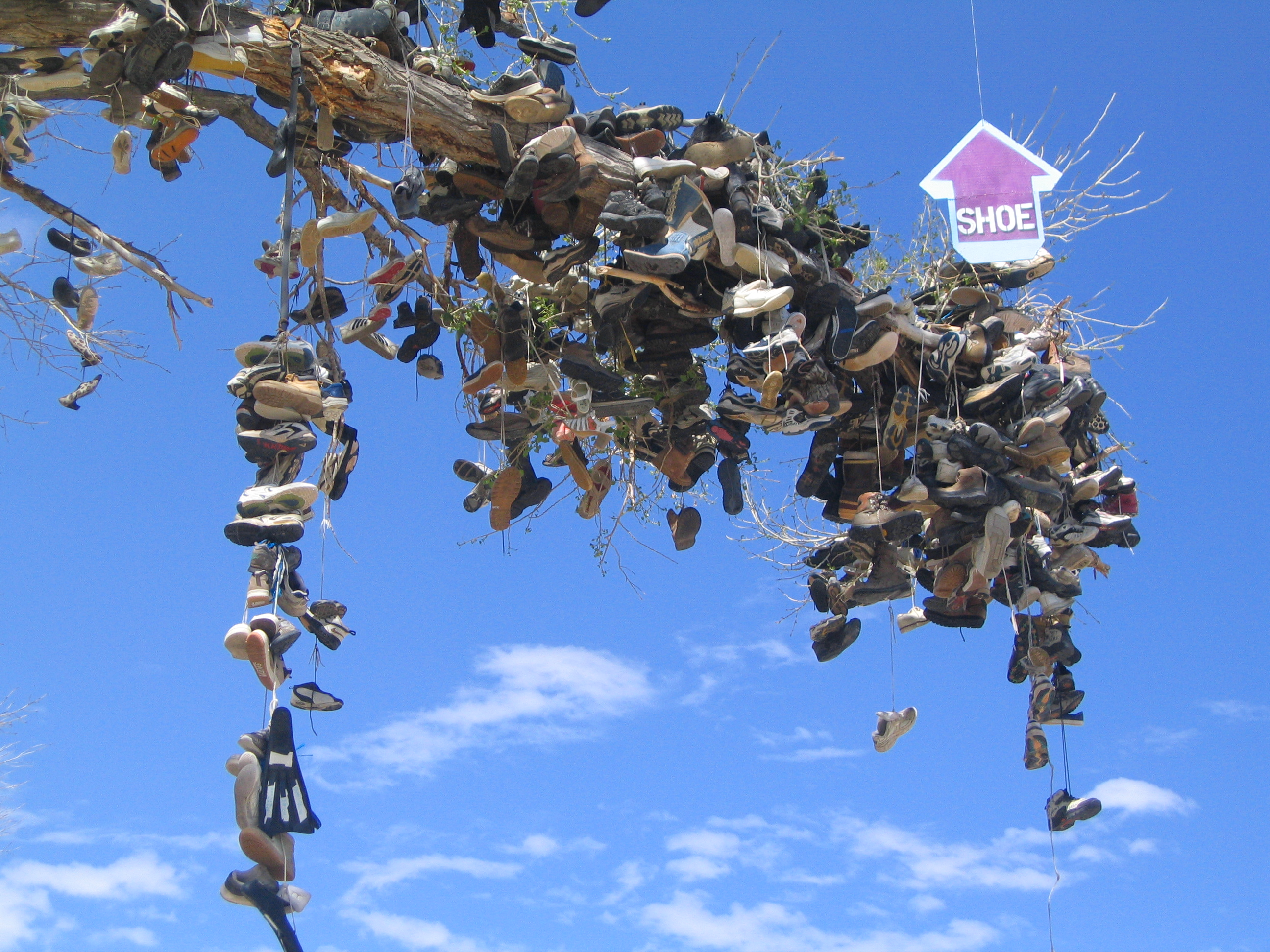 A site specific wooden arrow mobile hung next to the infamous "shoe/tree." The wooden arrow mobile reads "shoe" on 1-side and "tree" on the other side.